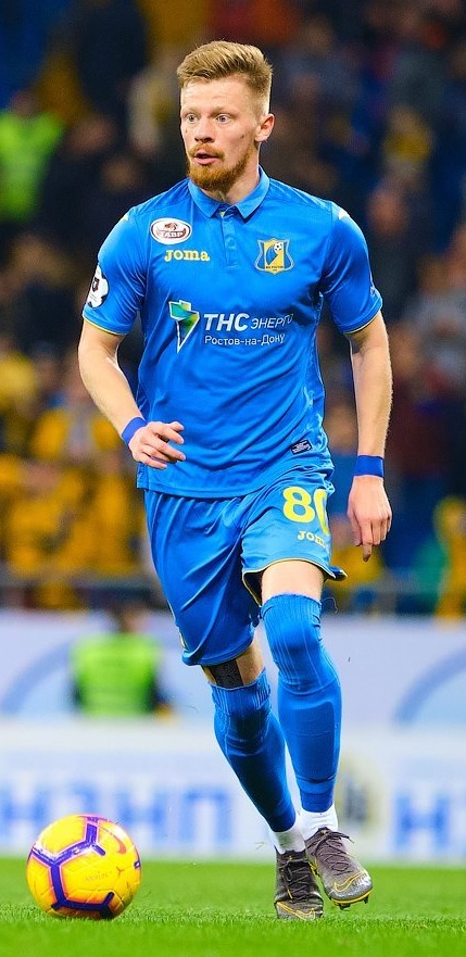 Ivan Novoseltsev with FC Rostov in a game against FC Ural Yekaterinburg.